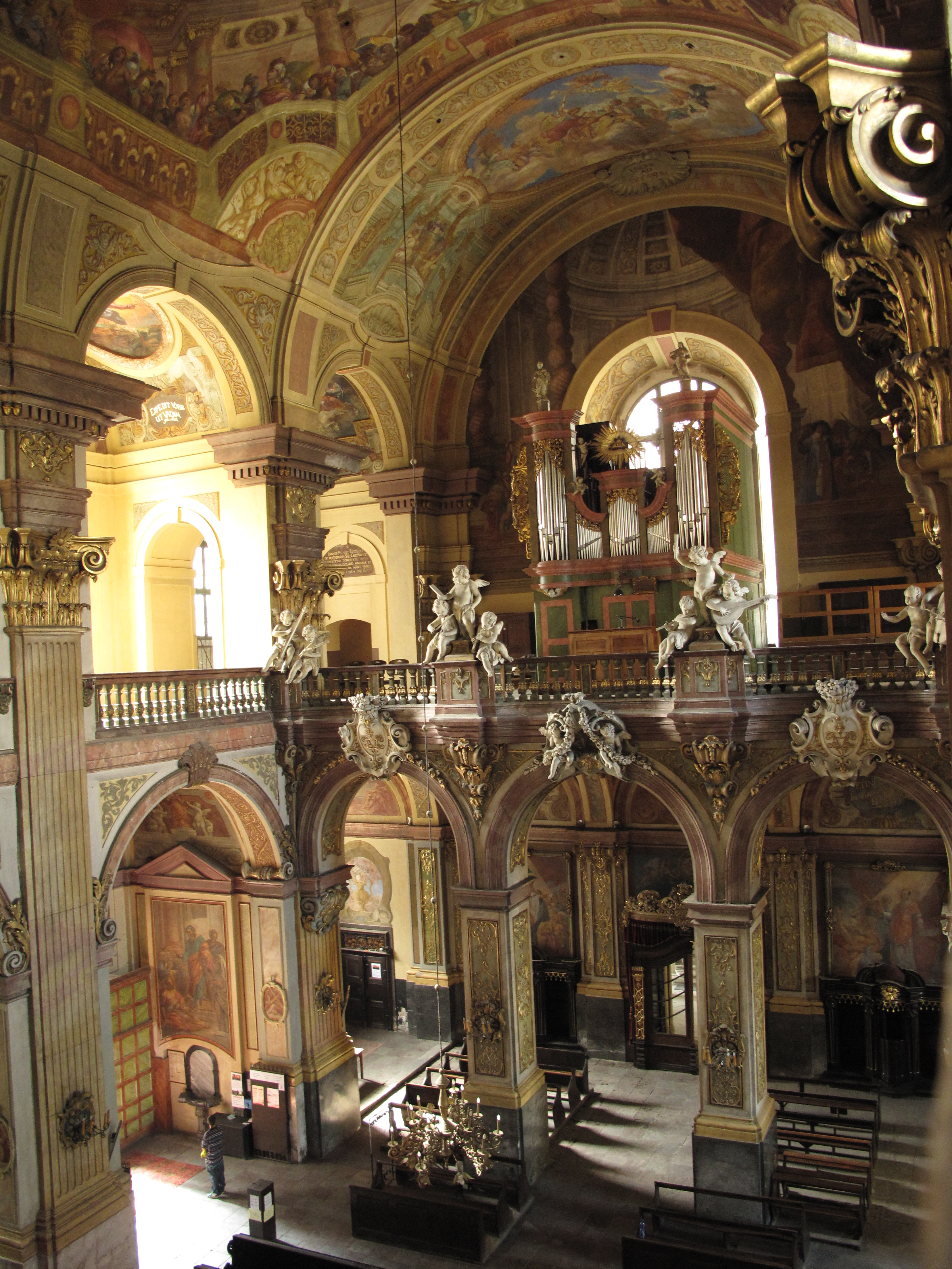 Wrocław, Poland.